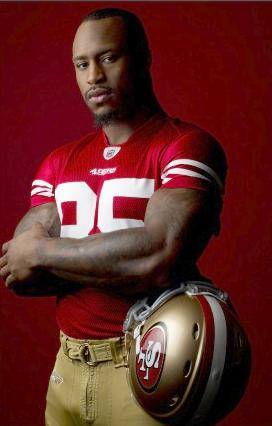 San Francisco Forty-Niners football player Vernon Davis in team uniform